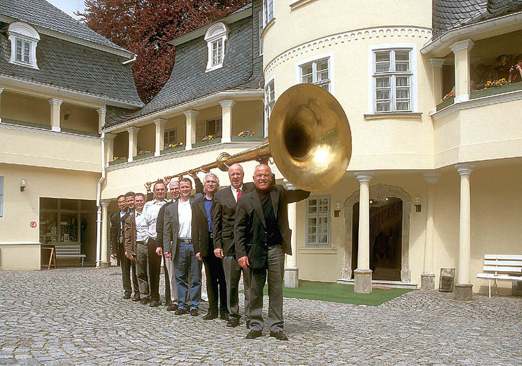 Tubajury at the International Instrumental Competition 2004 in Markneukirchen, a stretched Tuba by brass instrument bell maker Emil Körner. The instrument is located in the Museum of Musical Instruments Markneukirchen.